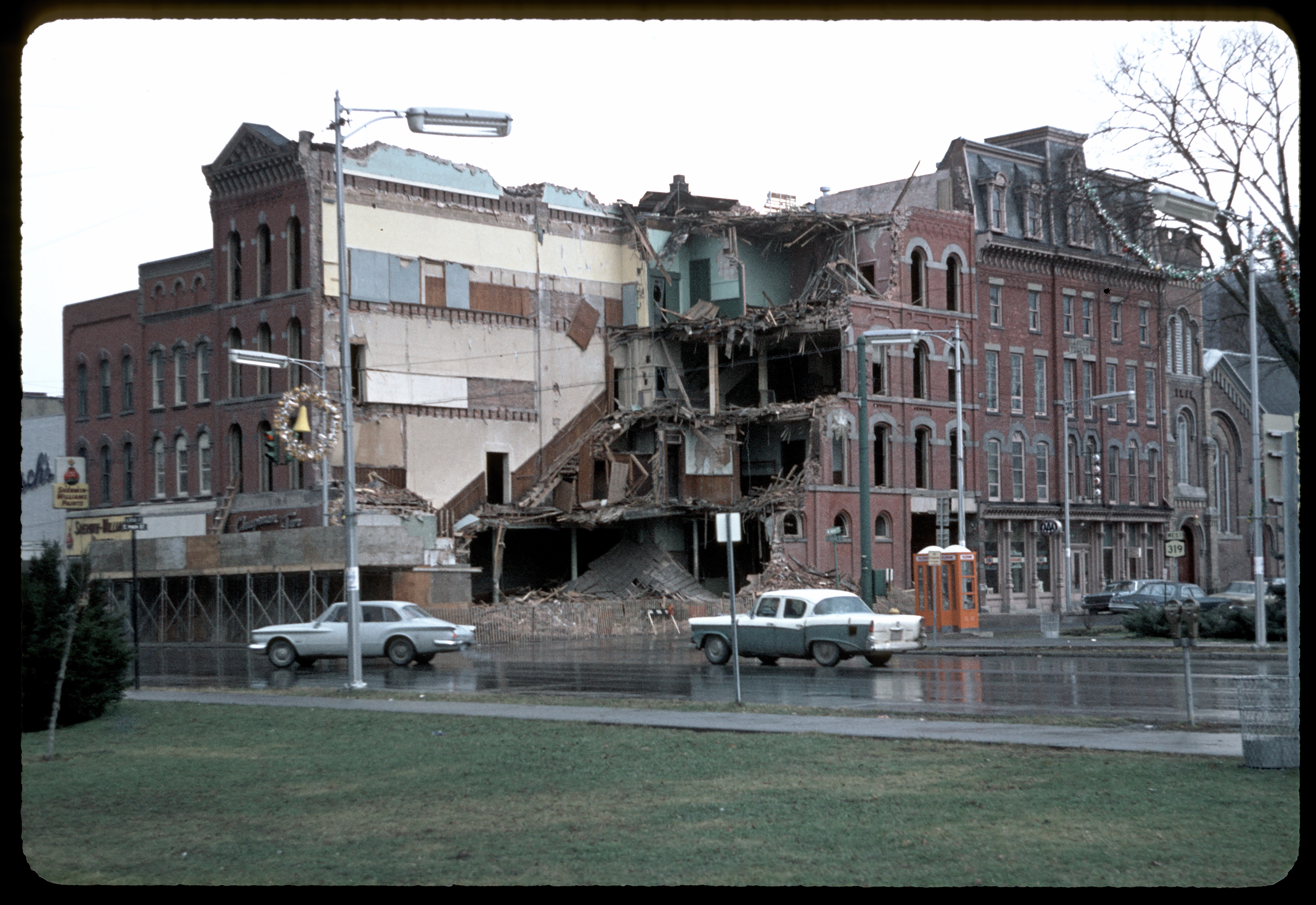 Last stages of the destruction of the old Chapman & Turner department store building at the heart of Norwich, the SW corner of Broad and Main streets. LH no. CS286. Photo taken by Lynn Harrington in 1966.